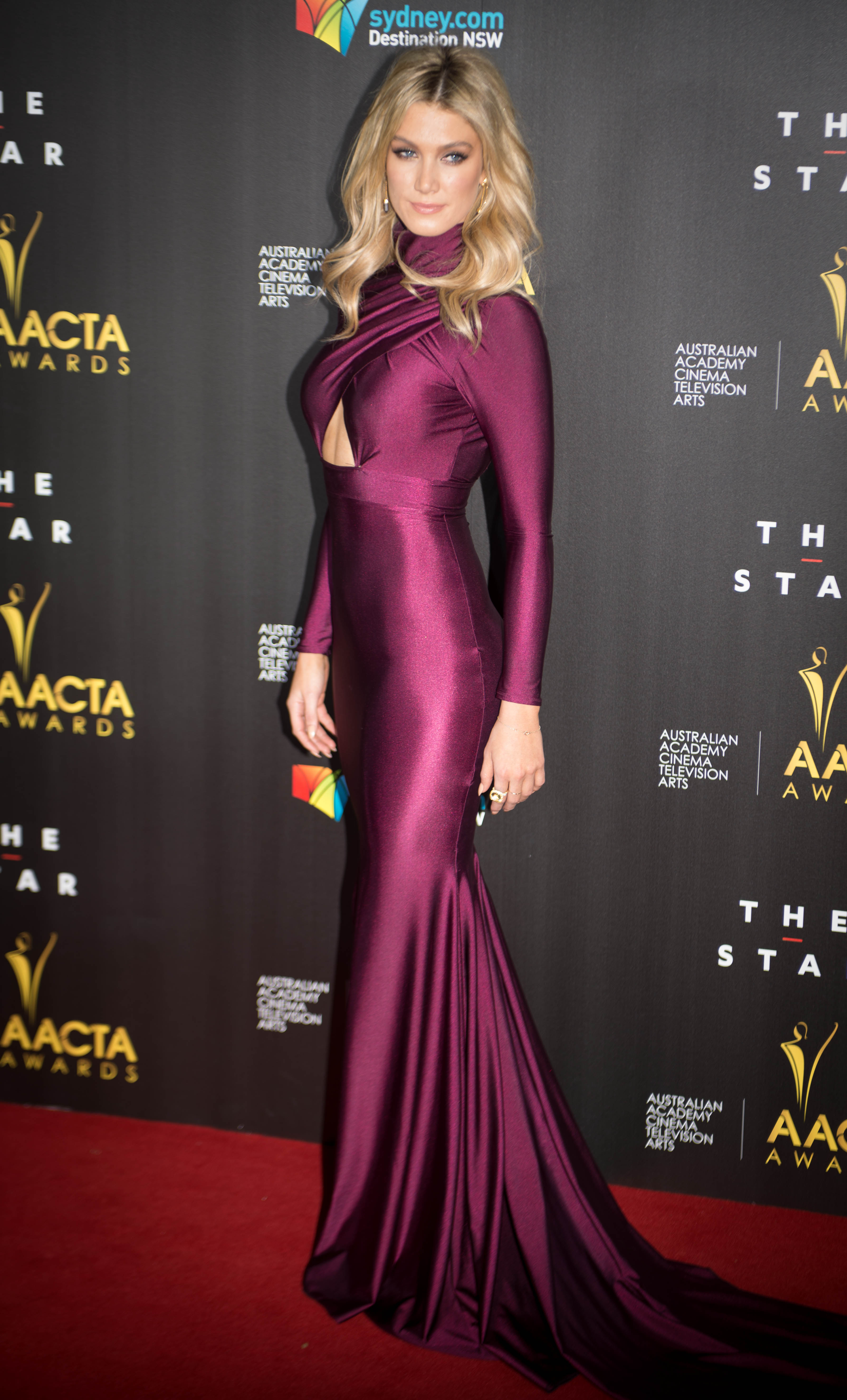 Delta Goodrem at the AACTA Awards 2014